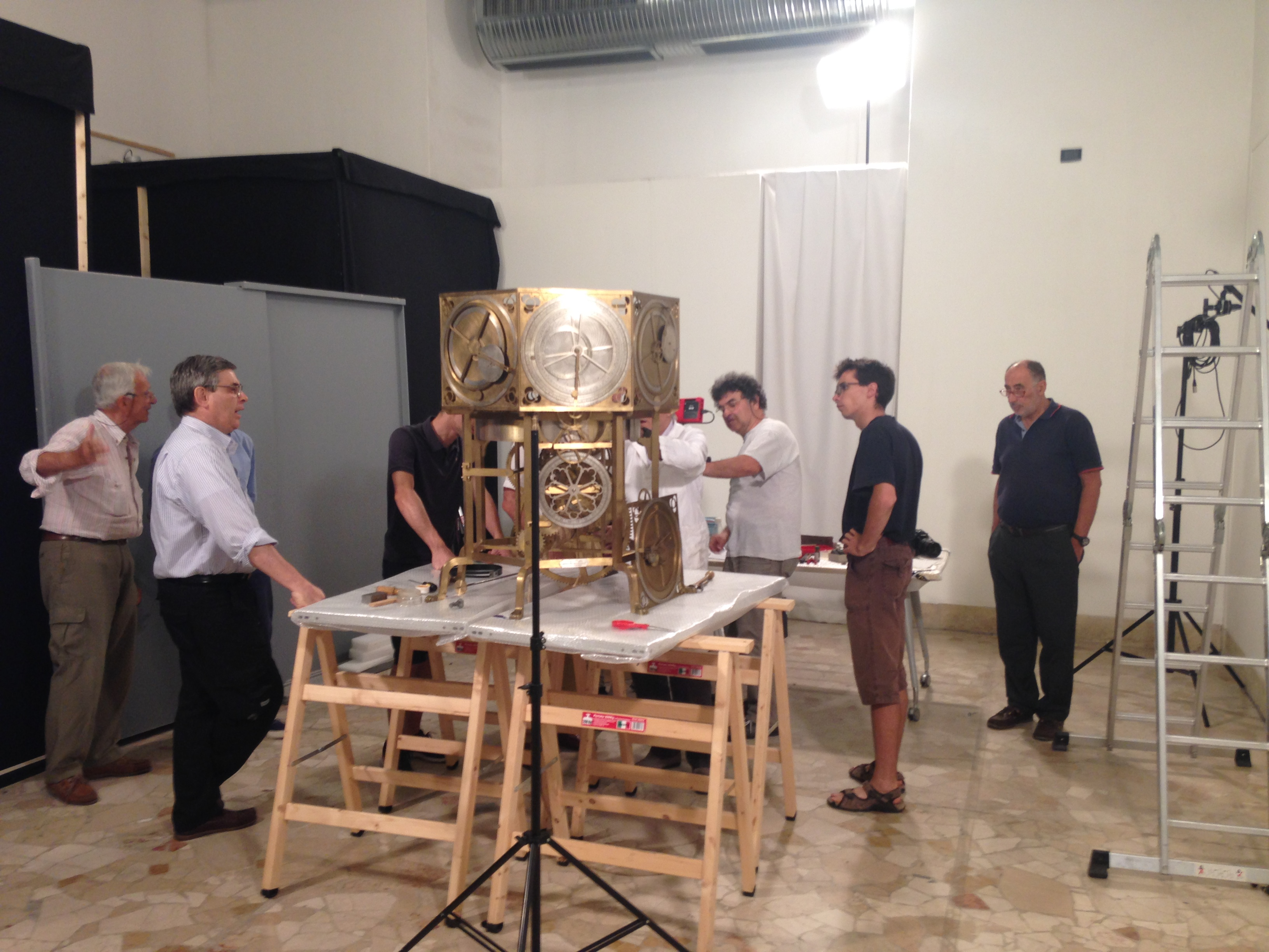 Astrarium by Giovanni Dondi (Milan) - during 2016 restoration. Museo nazionale della scienza e tecnologia, Milan.